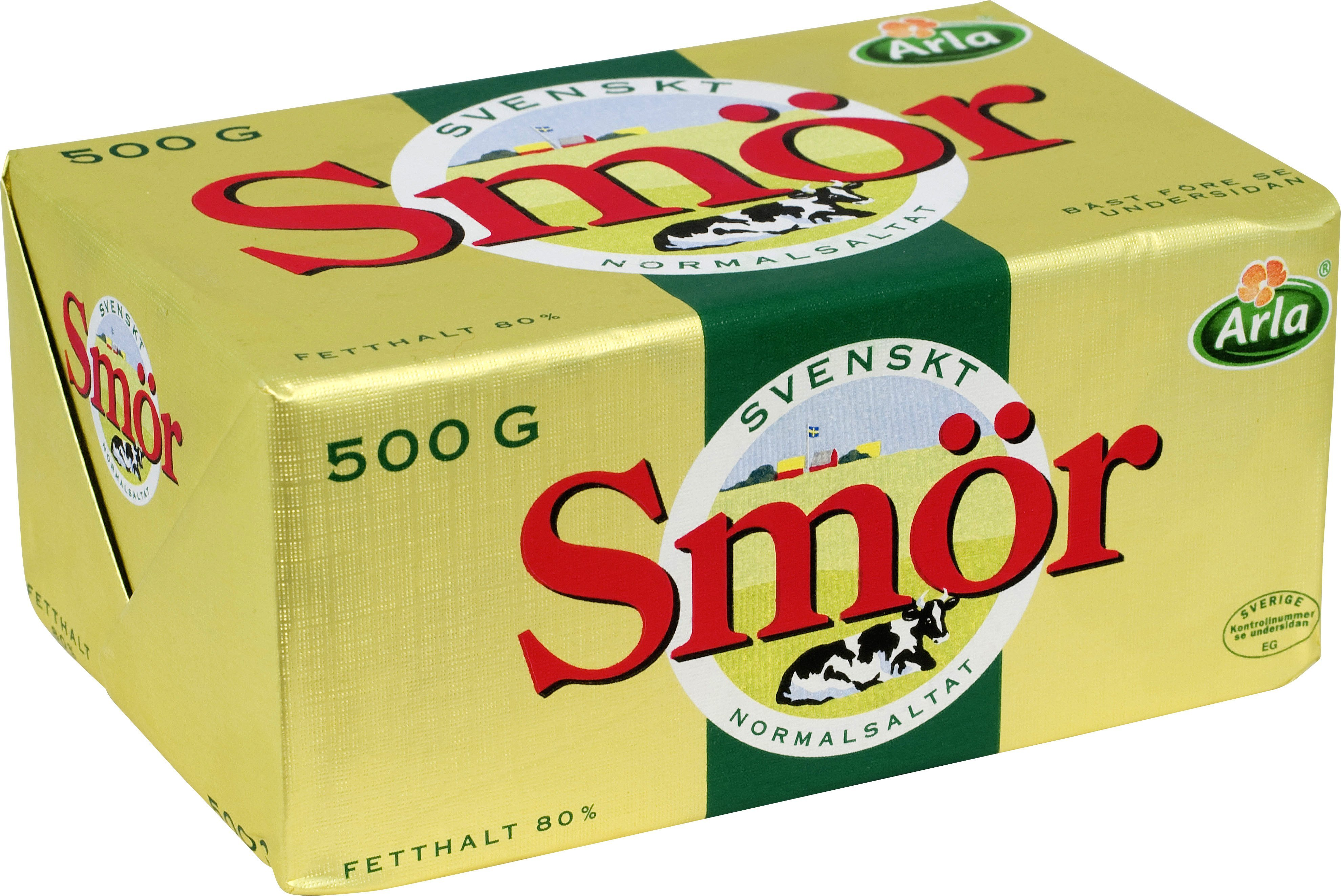 A 500-gram packet of butter from Arla Foods.